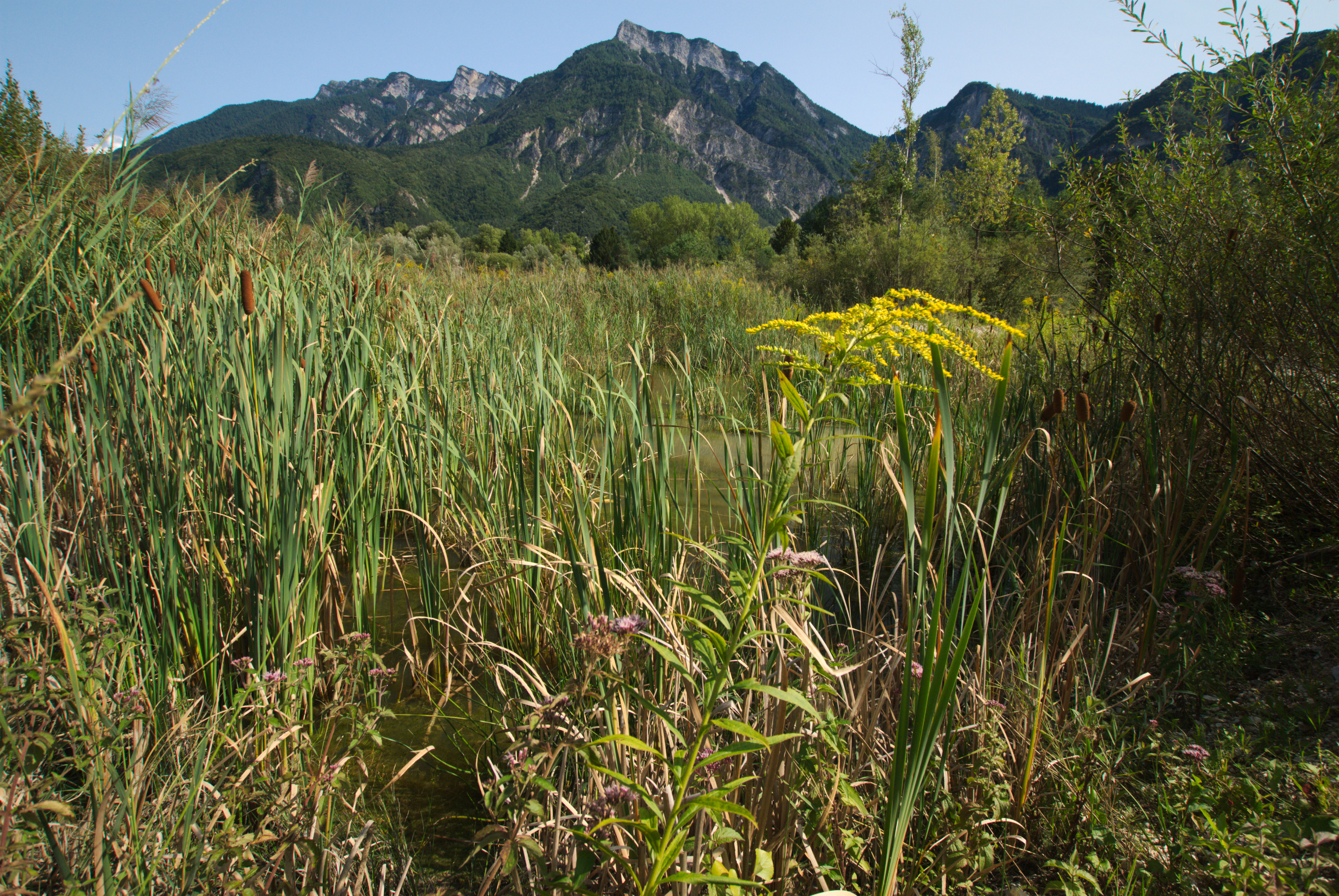 This is a photo of a monument which is part of cultural heritage of Italy. The authorisation for taking photos of this object was provided by the World Wide Fund for Nature Italy.